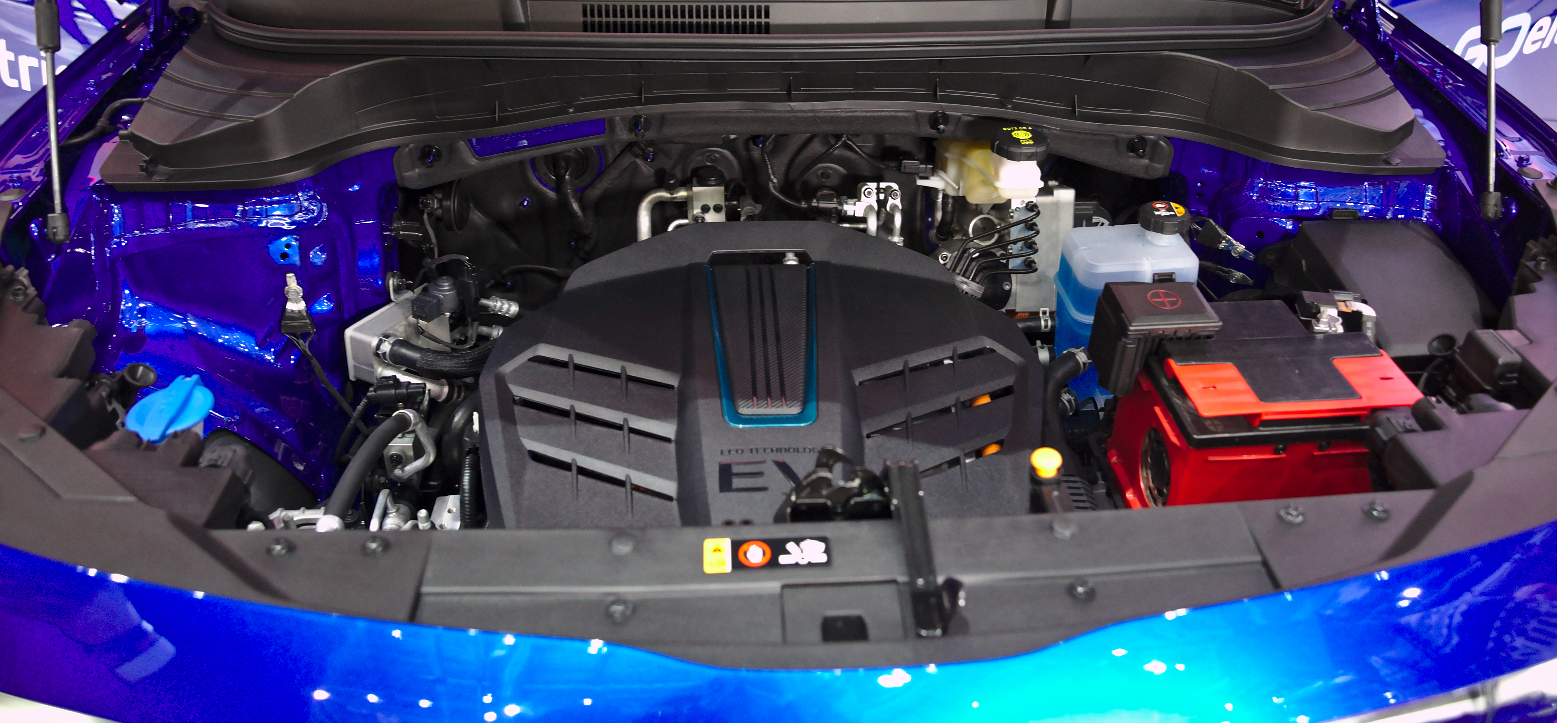 Kia e-Soul at Geneva Motor Show 2019